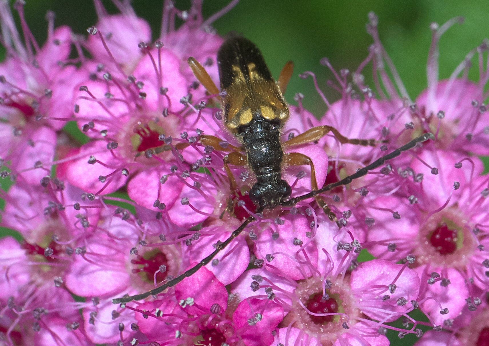 Xestoleptura crassipes, Subfamily: Flower Longhorns, ID Confidence: 98